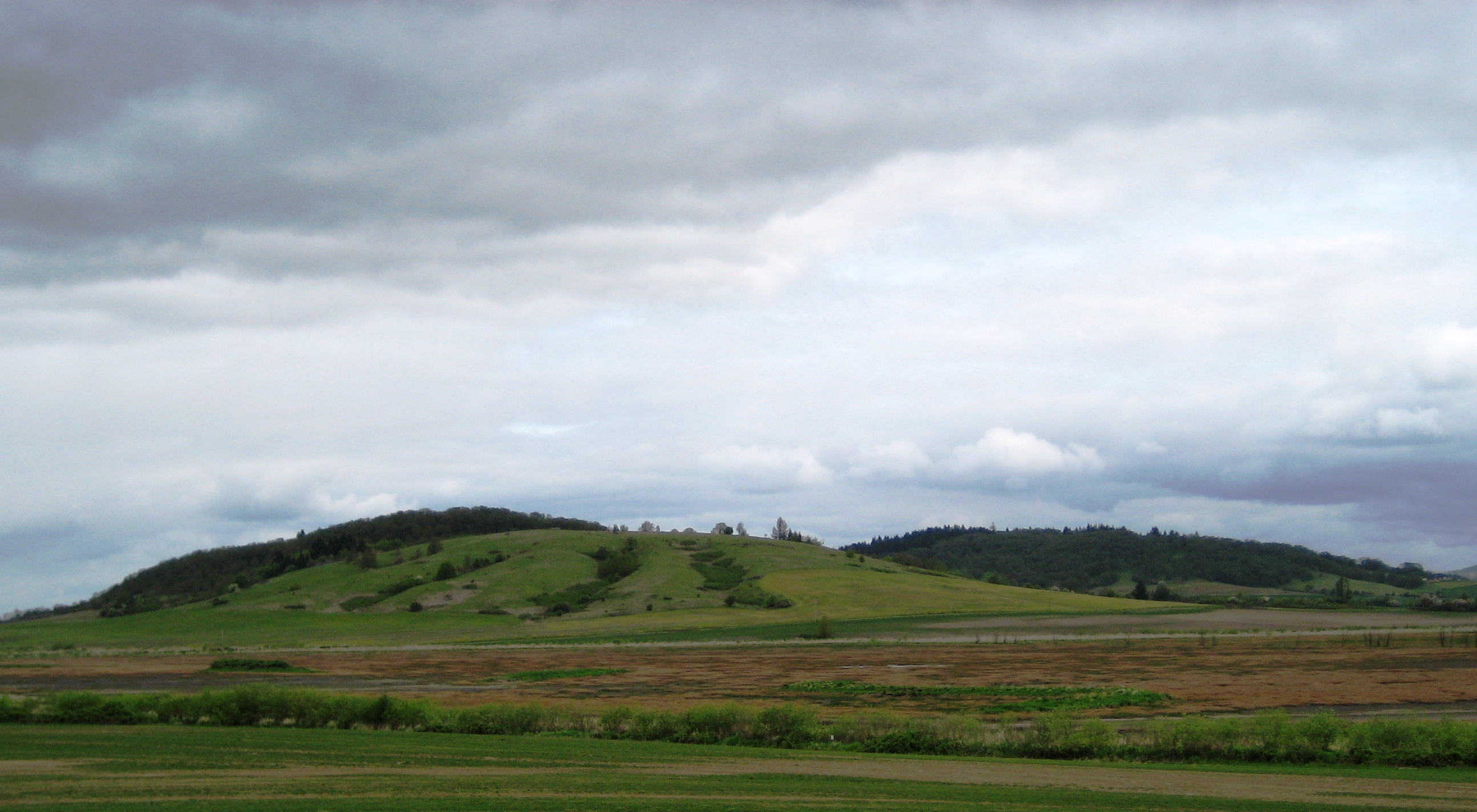 Eola Hills west of Salem Oregon; Mount Baldy at Baskett Slough National Wildlife Refuge